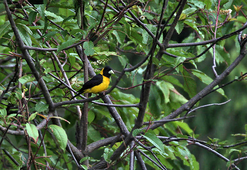 Black-&-Yellow Grosbeak Mycerobas icterioides in in Kullu District of Himachal Pradesh, India. We were fortunate to see this lovely bird at 5 to 6 points during the Sar Pass trek. It's call of 'pir-riu pir-riu pir-riu........' was really wonderful. It will sit at some distant canopy in the early mornings & late evenings & give some good views to all the trekkers from camps with Binocolors. Early morning a number of these birds (along with females which are quite dull in comparison) were seen feeding at ground at Bhandak Thaatch (8000 ft.). Only to fly away on the adjustant trees on approach.